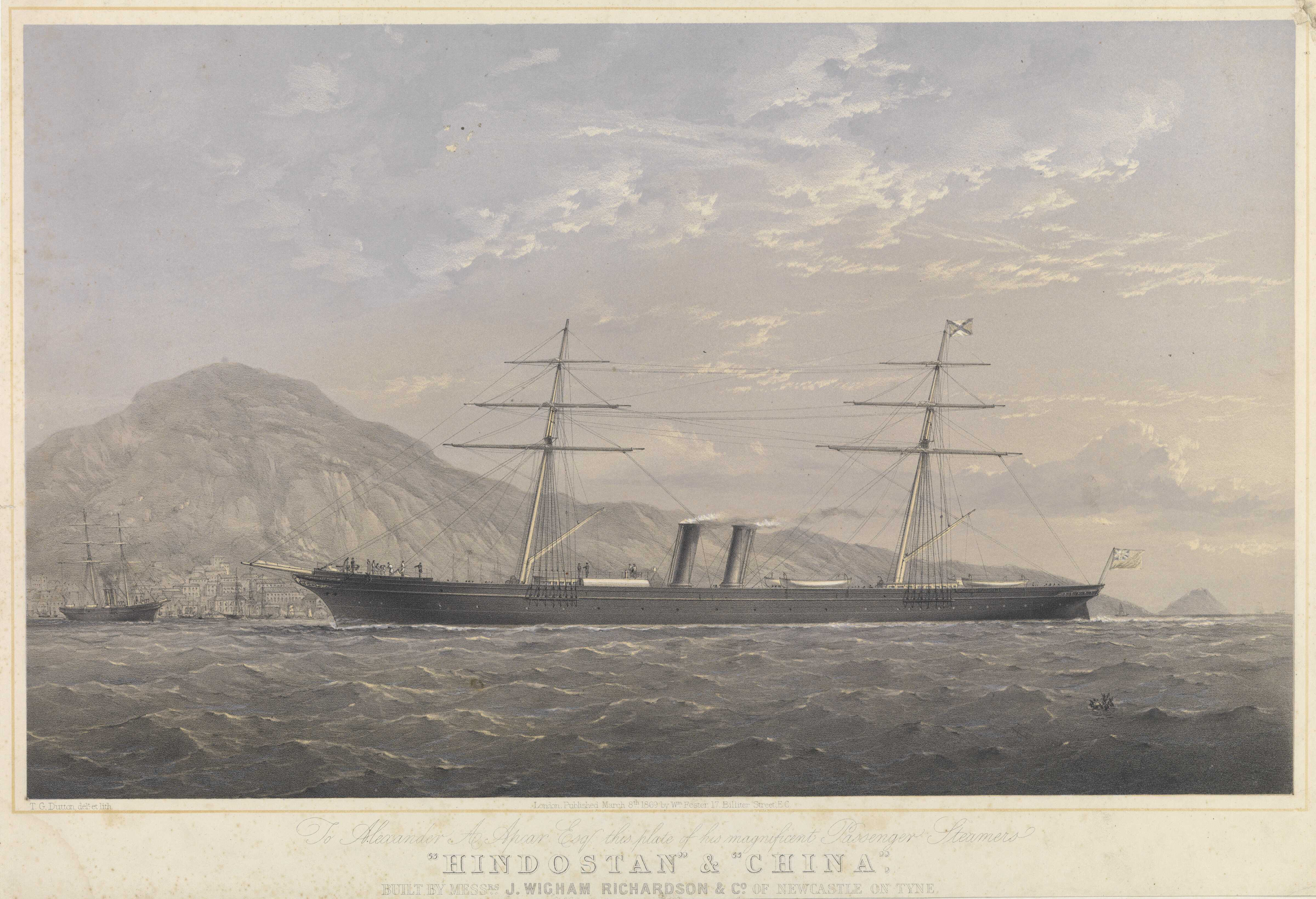 To Alexander A. Apcar Esq. this plate of his magnificent Passenger Steamers Hindostan and China - (is dedicated) RMG PY9125 Sheet: 432 x 634 mm